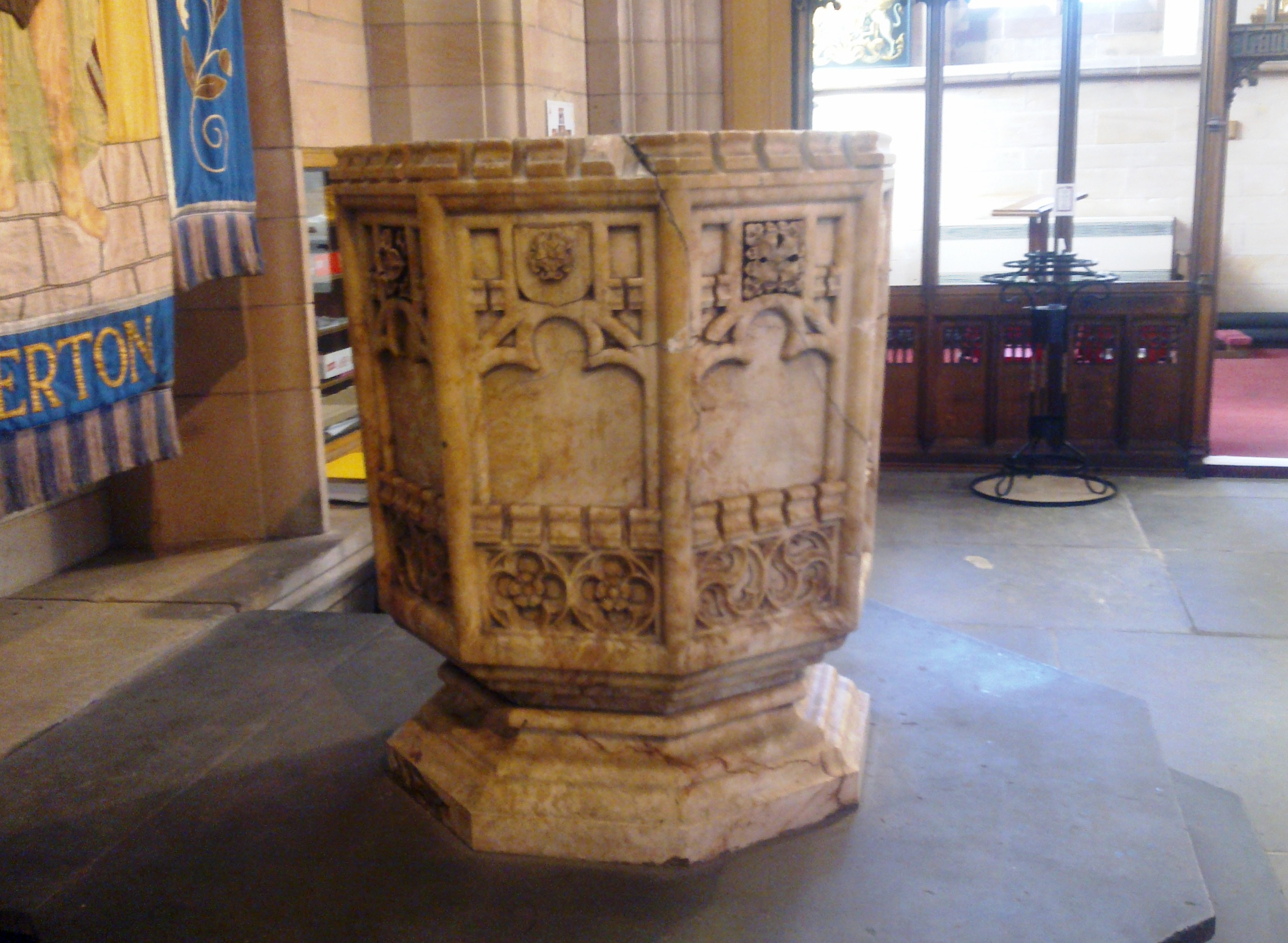 St John the Baptist's Church, Atherton - font